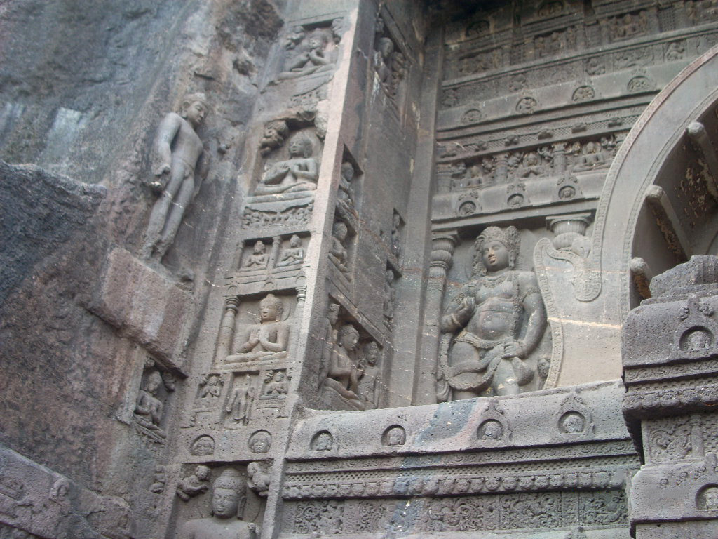 these are the images of he Anjanta And Ellora Caves in Maharastra,India